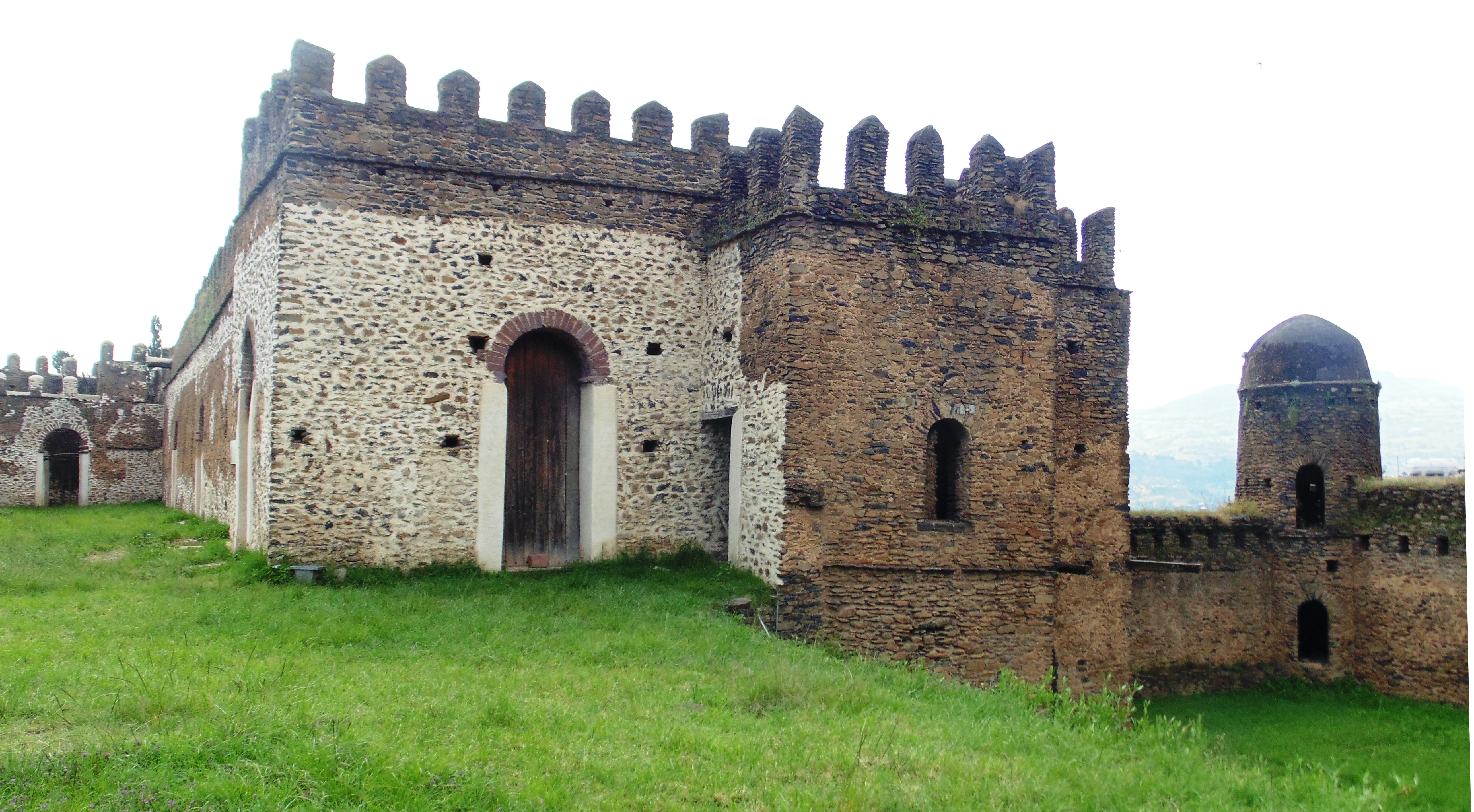 Bakaffa's Palace